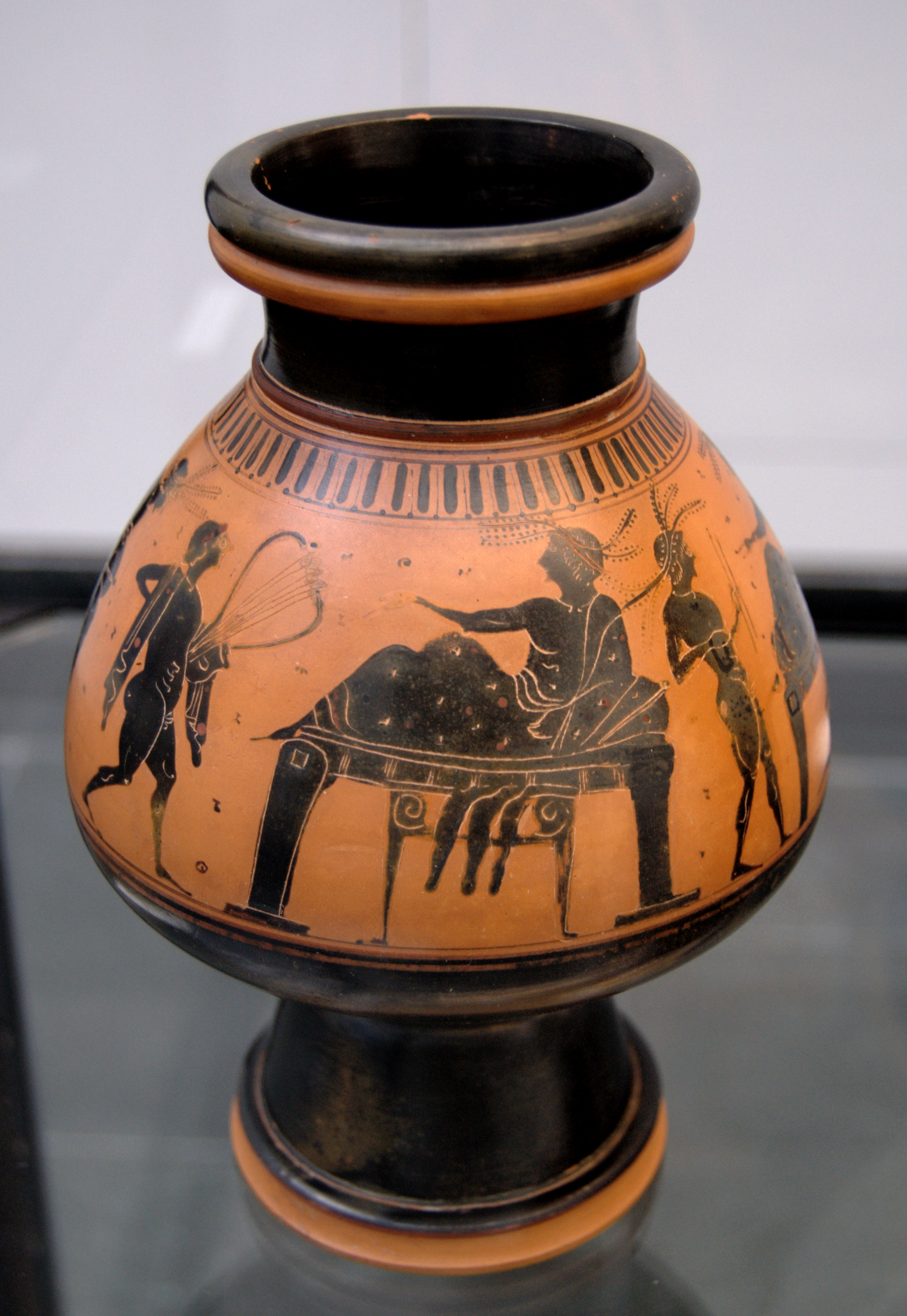 Symposium scene. Attic black-figure pottery, ca. 510 BC.